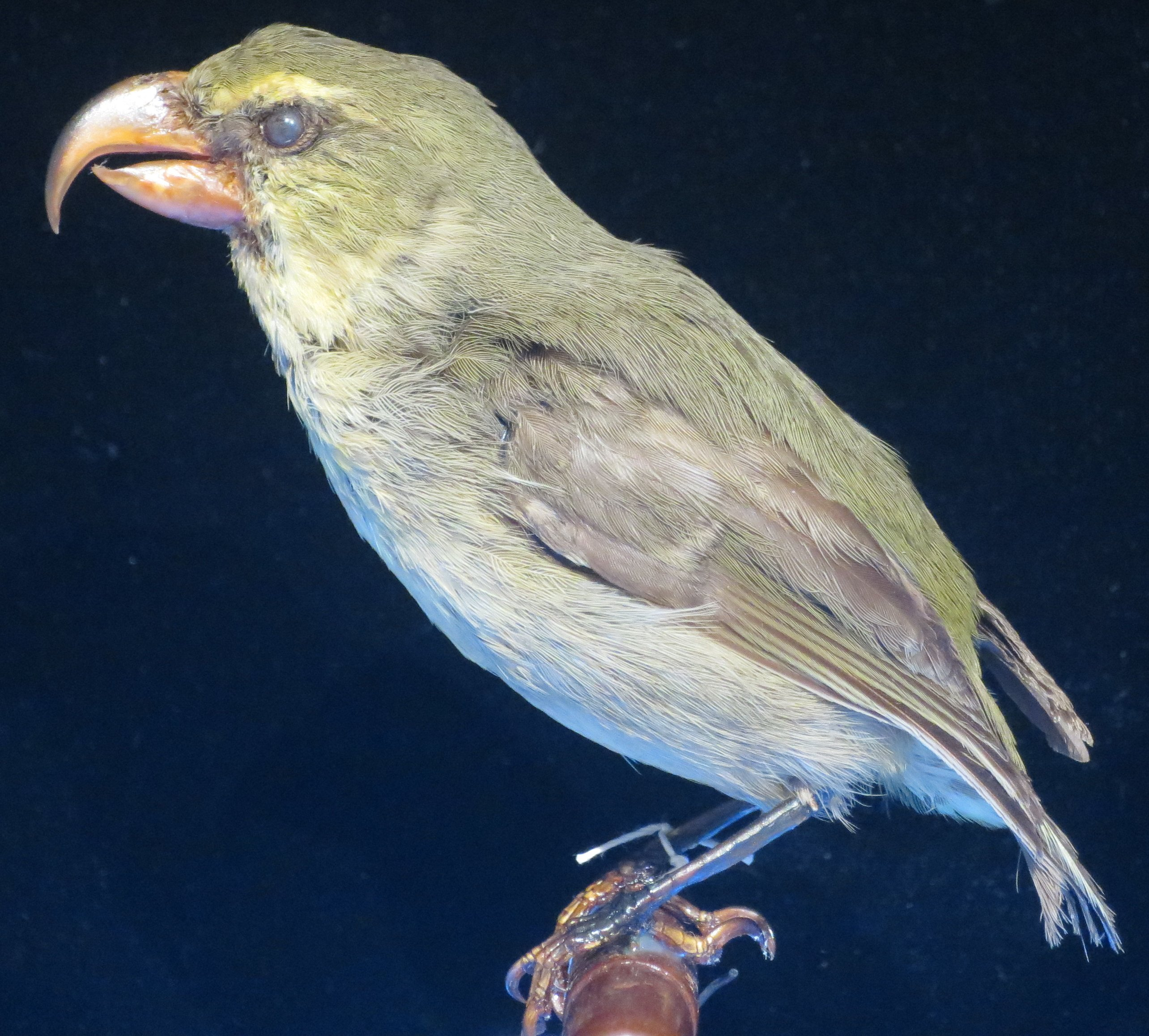 Pseudonestor xanthophrys Roths, male, Bishop Museum, Honolulu